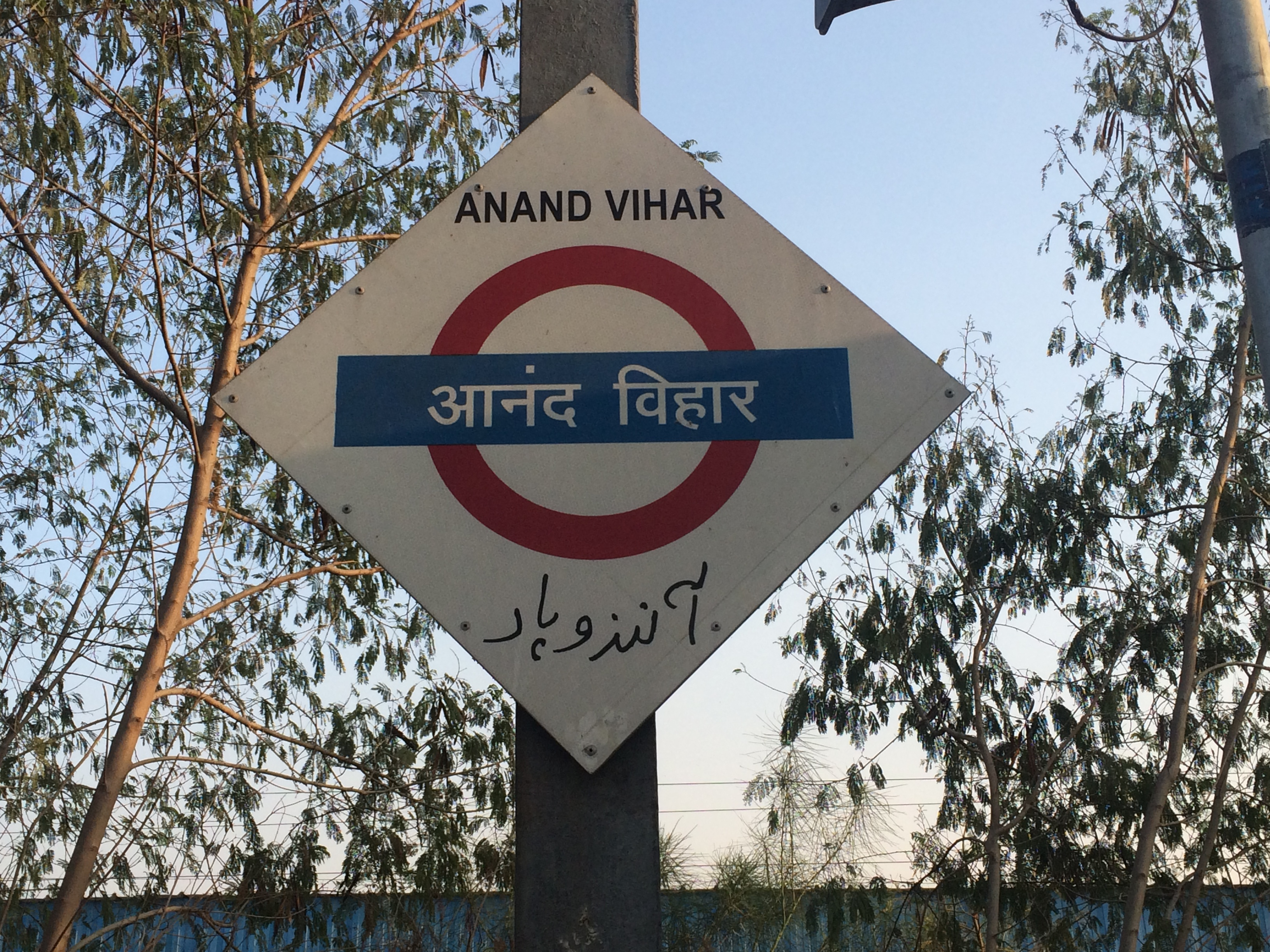 Anand Vihar Terminal - platformboard